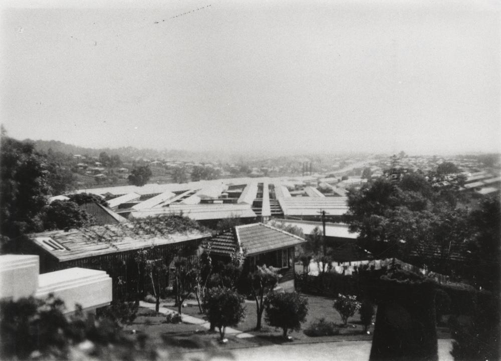 View of the Holland Park Military Hospital on Logan Road, 1945. It was erected in 1943 and served as the U.S. 42nd General Hospital. (Description supplied with photograph.).